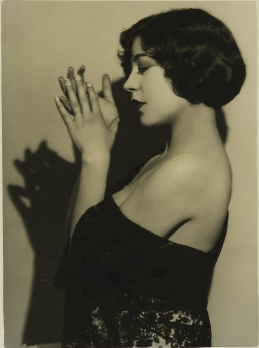 Renée Adorée